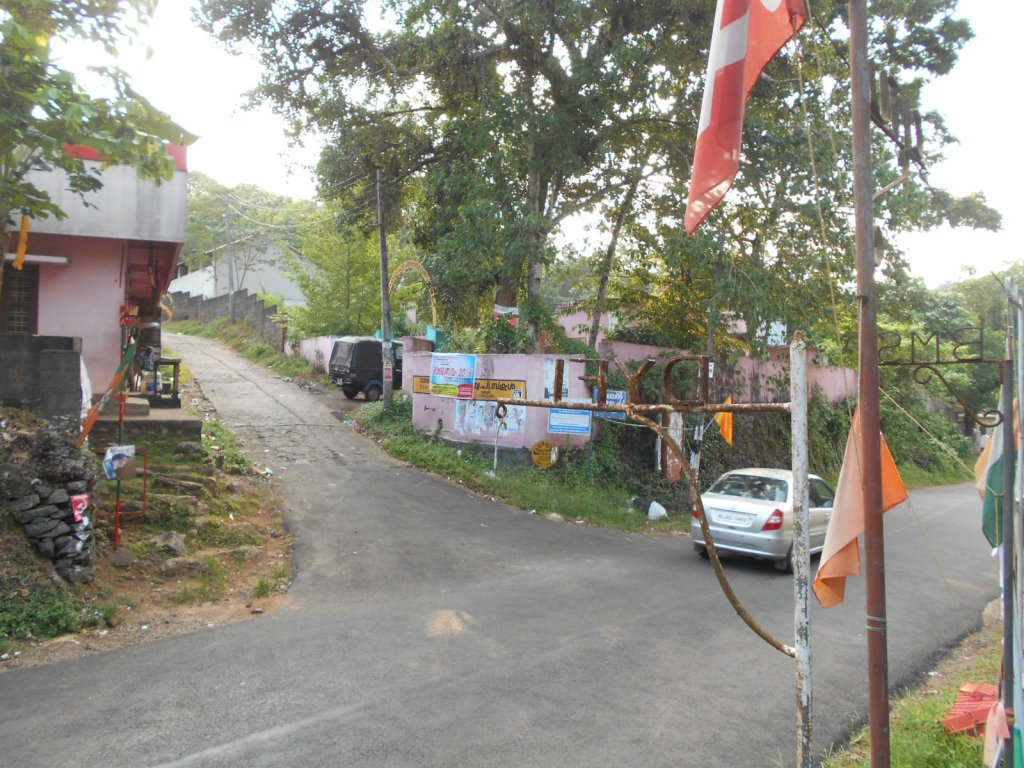 varavoor ranni junction in pathanamthitta, kerala, india